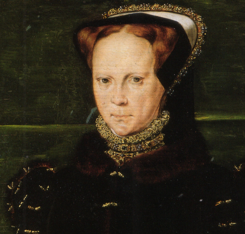 Portrait of Mary I of England